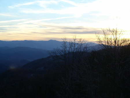 Olympus 4.0 Megapixel 3x zoom Digital Camera. Taken in 2002 in Cocke County, Tennessee.